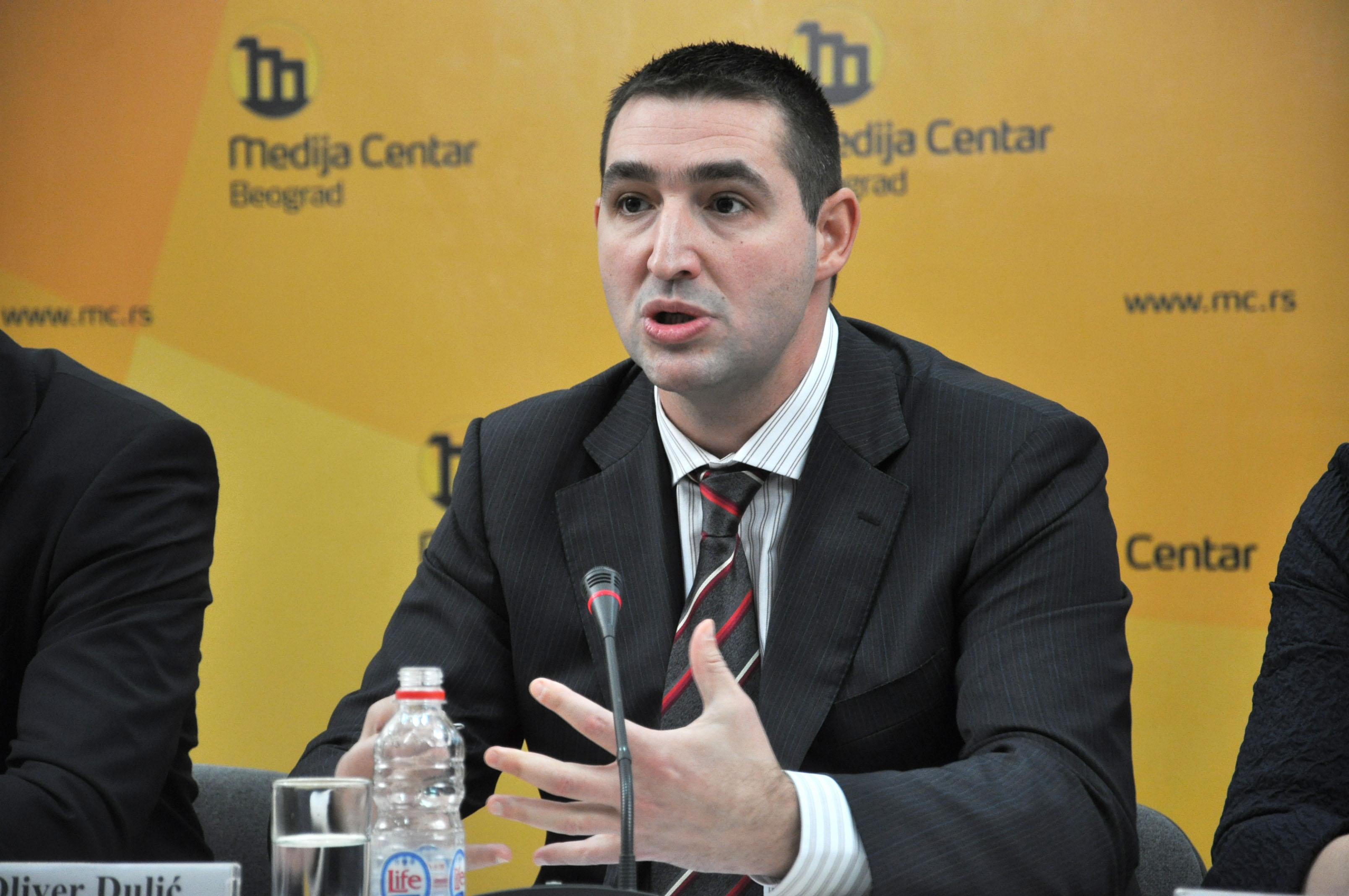 Oliver Dulić